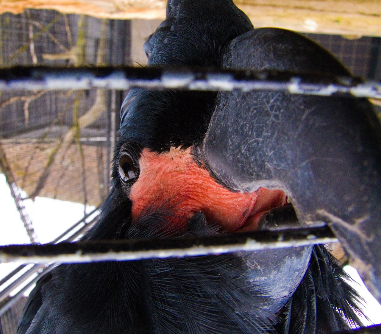 Palm Cockatoo (also known as the Goliath Cockatoo) biting cage bars at Leeds Castle, Kent, England.